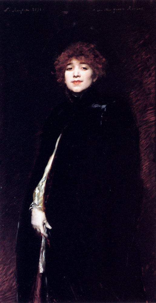 Portrait of Juana Romani